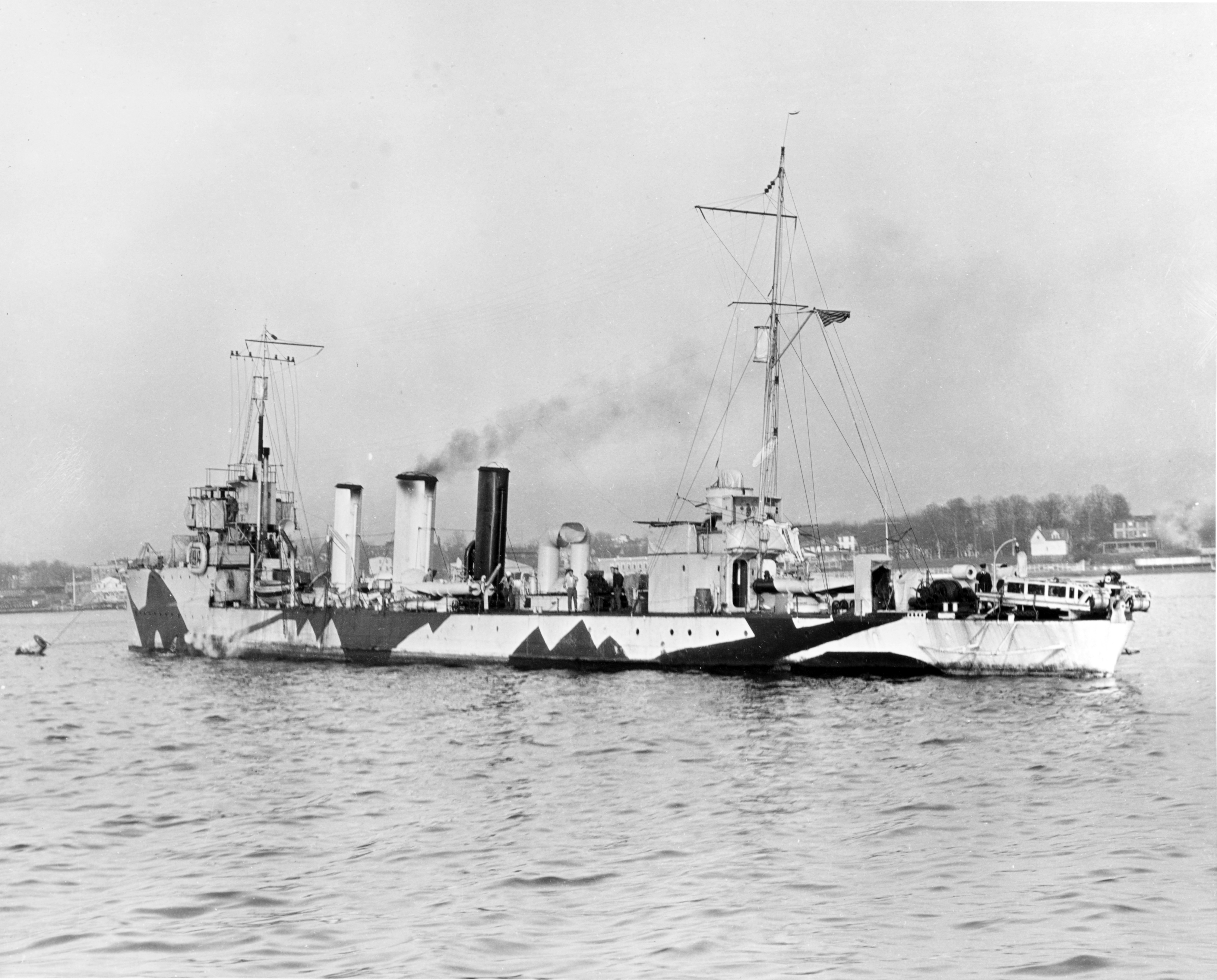 (Destroyer # 26) Moored to a bouy in 1918. Note her dazzle camouflage, and the depth charge racks and Y gun depth charge thrower mounted on her after deck. Photograph from the Bureau of Ships Collection in the U.S. National Archives.